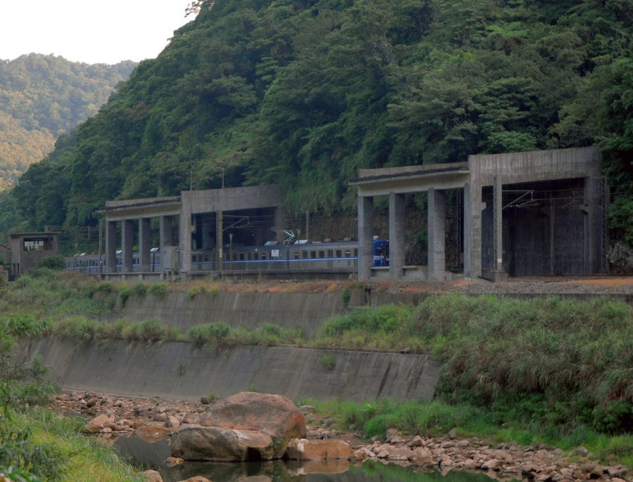 Sandiaoling Station is a local train station of Yilan Line, part of Taiwan's eastern rail line. It's located within the boundary of RueiFang Town, Taipei County. SanDiaoLing is Taiwan's only station which has no any road connection to outside. This photo shows a EMU500 commuter train stopping on the platform of the station.中文（台灣）: 三貂嶺車站是臺鐵宜蘭線上的一座小型地方車站，位於臺北縣瑞芳鎮。三貂嶺車站是全臺灣唯一沒有任何道路連結的車站，圖中見到的是一列區間電聯車停靠在三貂嶺車站的月臺上。